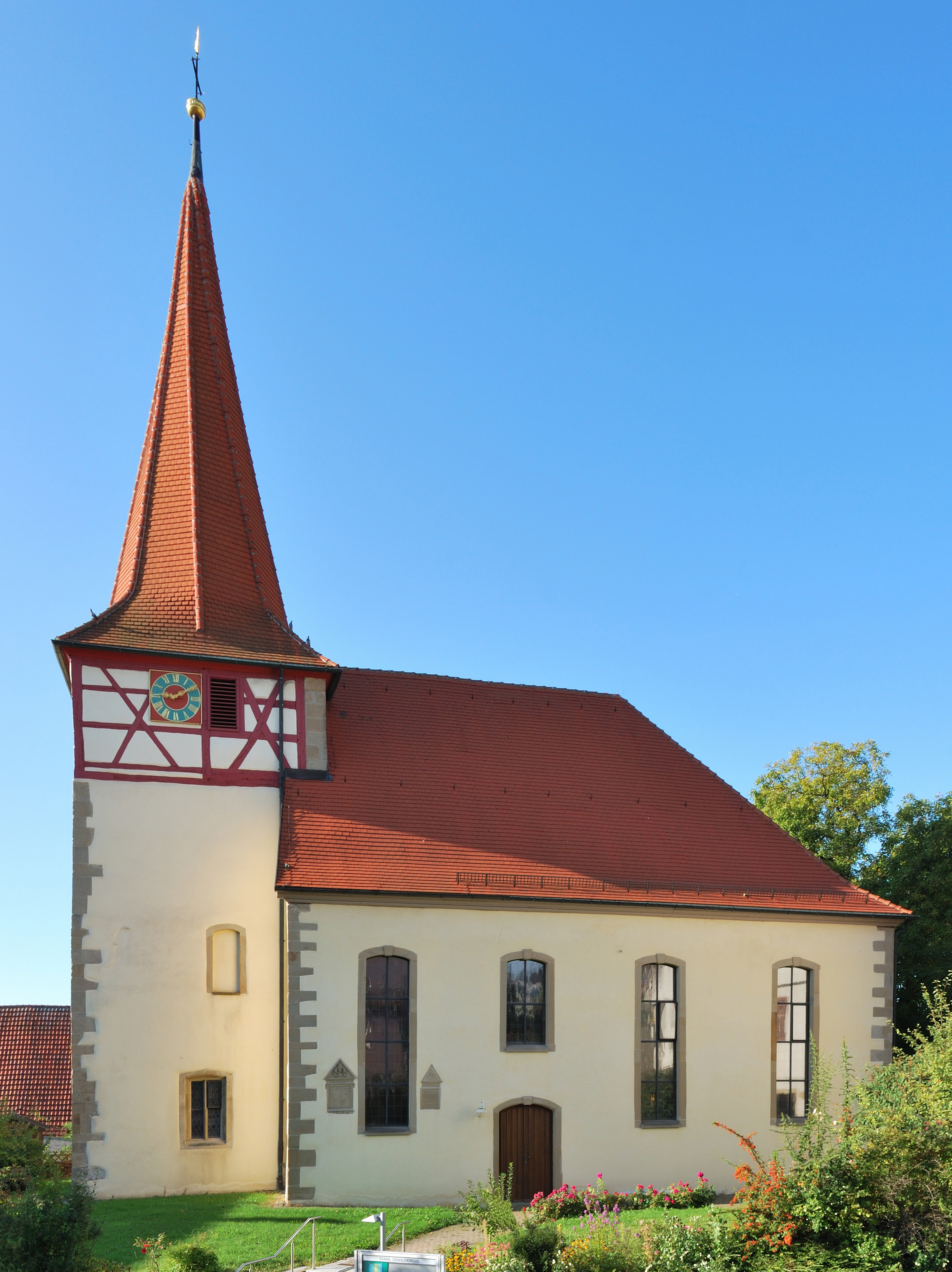 The protestant parish church St. Oswald in Hirschlanden in Baden-Württemberg in Germany. View from the North.